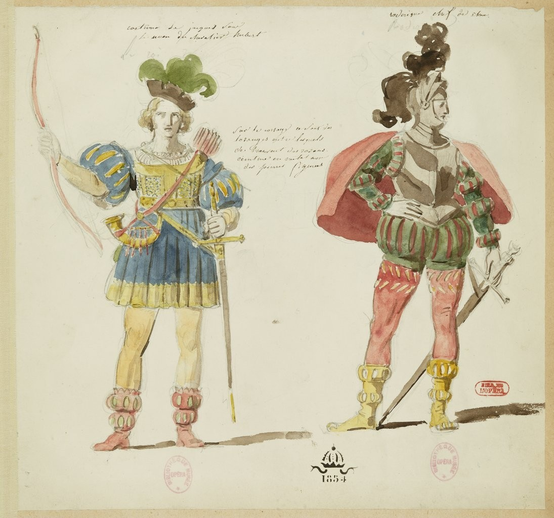 Rossini - La donna del lago - Paris 1824 - Jacques, Rodrigue